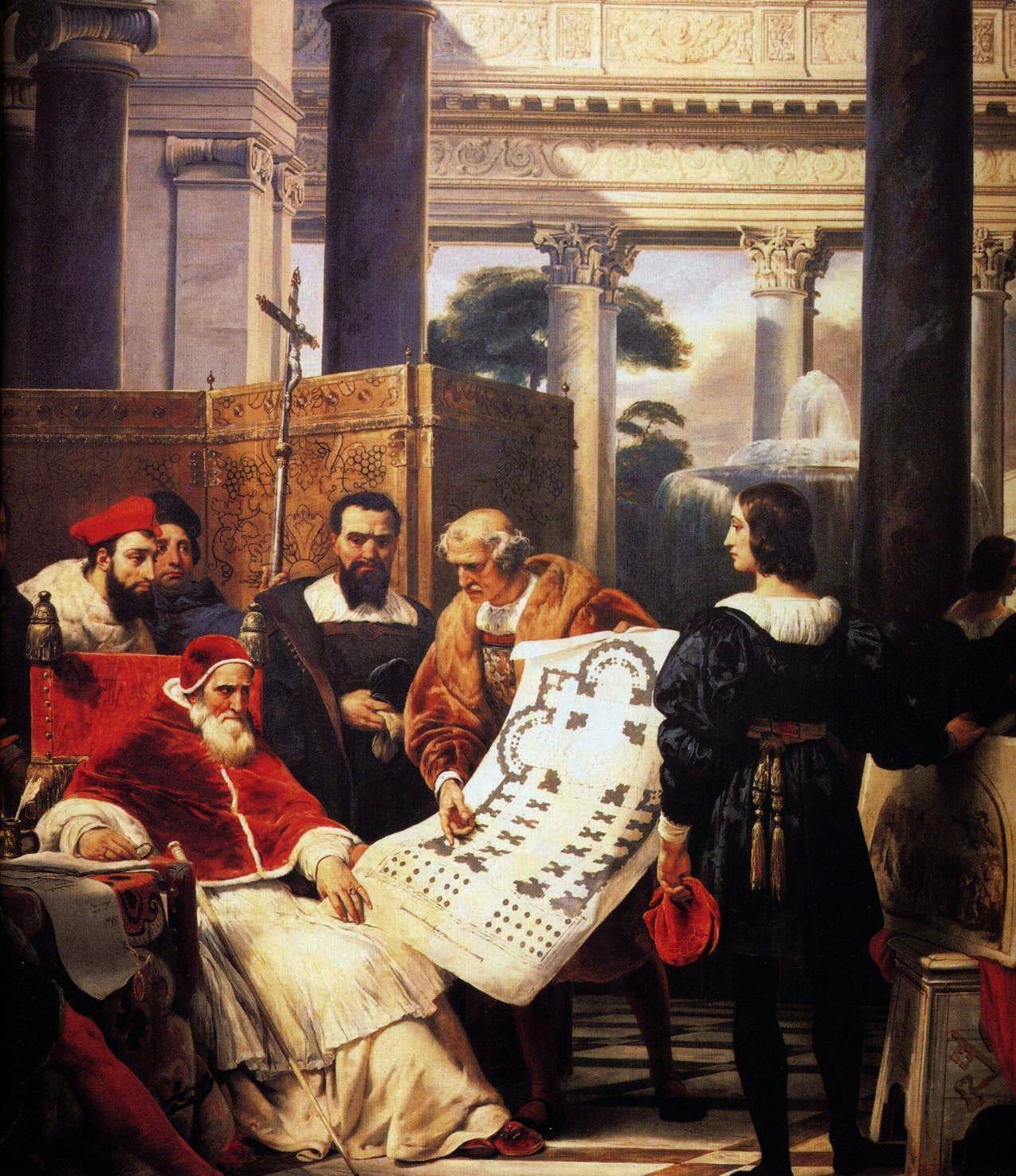 ca 1510